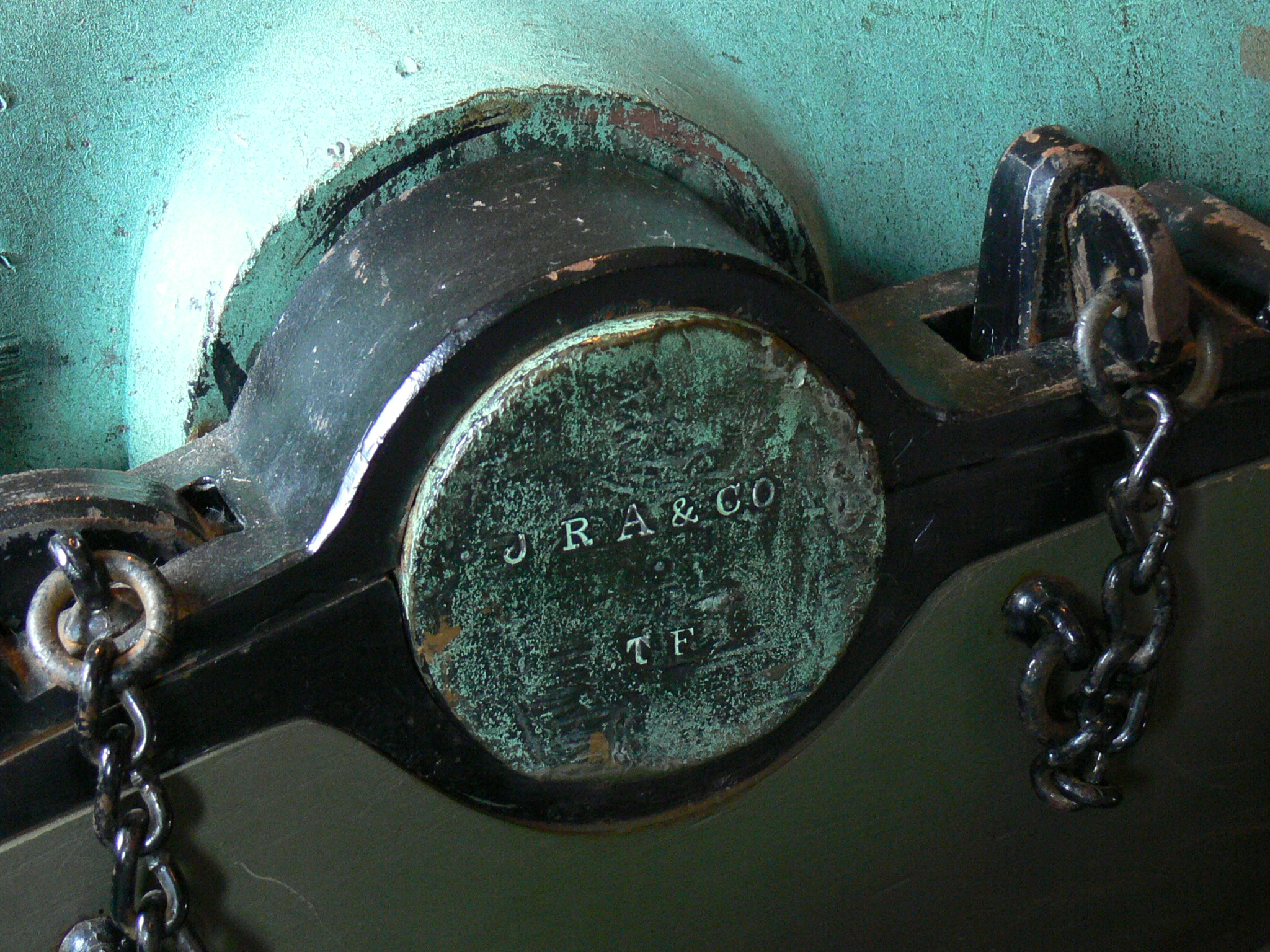 Trunnion marked "JRA&Co TF" (J.R. Anderson & Co, Tredegar Foundry); from a bronze cannon made by the Tredegar Iron Works in Richmond, Virginia, on display at Historic Tredegar.